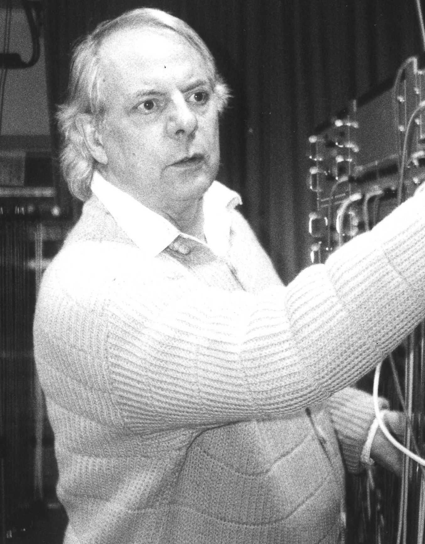 Karlheinz Stockhausen October 1994 in the Studio for Electronic Music of WDR Cologne, during production of the Electronic Music from FRIDAY from LIGHT.